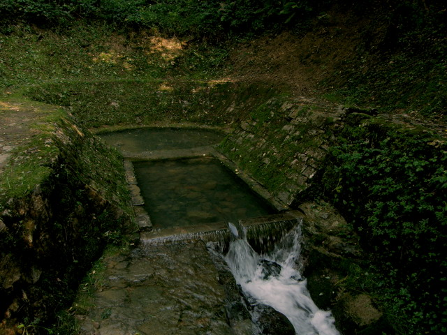 The karst spring of river Reyssouze at Journans (Ain, France)